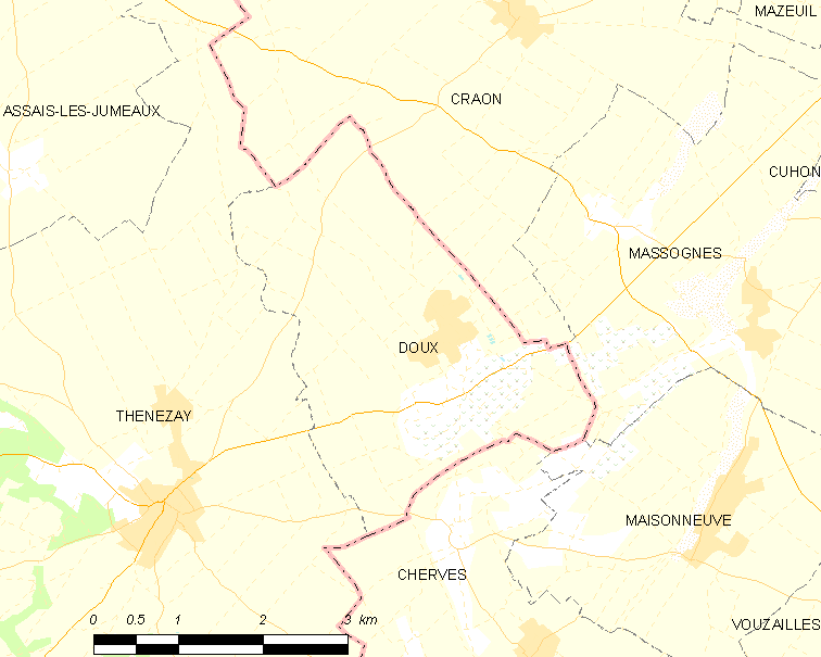 Map of French municipality Doux